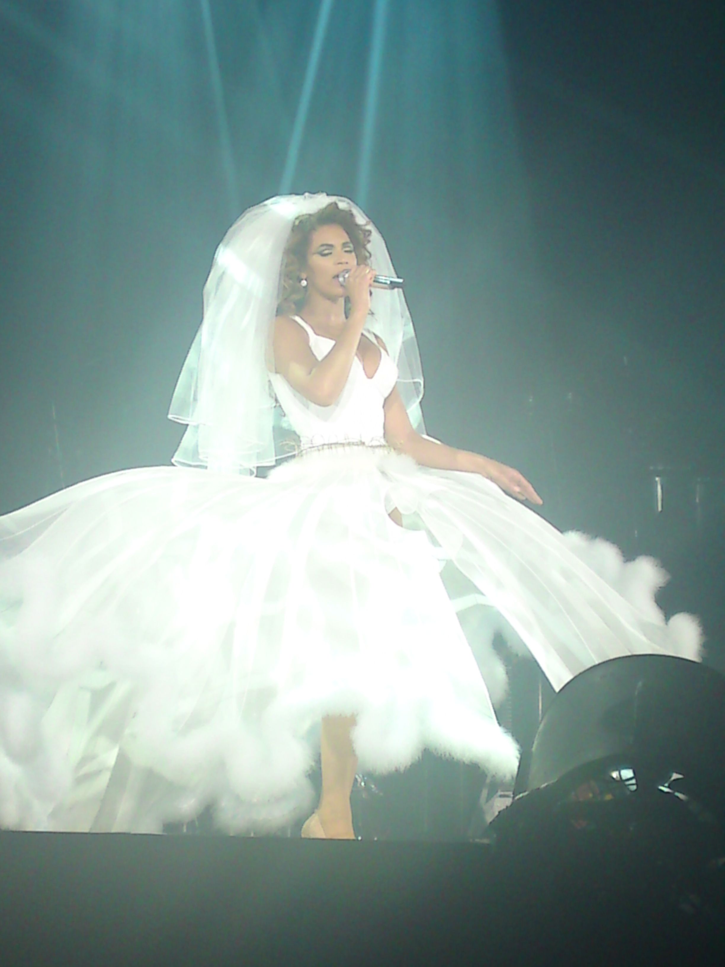 Beyoncé performs "Ave Maria" during her I Am... Tour in Zurich.